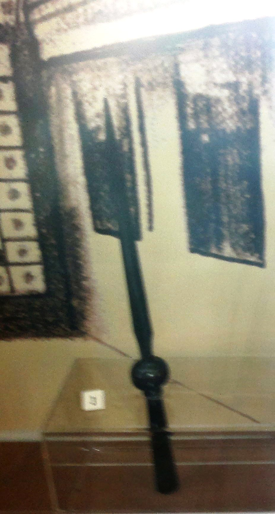 Head of banner of Baku khanate (iron, copper). Museum of History of Azerbaijan, Baku.